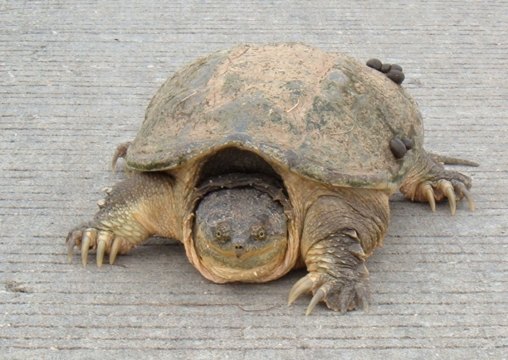 From English wikipedia. A common snapping turtle in Norman, Oklahoma, September, 2005. Note the sharp nails and beak and the bony protruberances on the legs. The dark brown lumps on the turtle's back are snails.